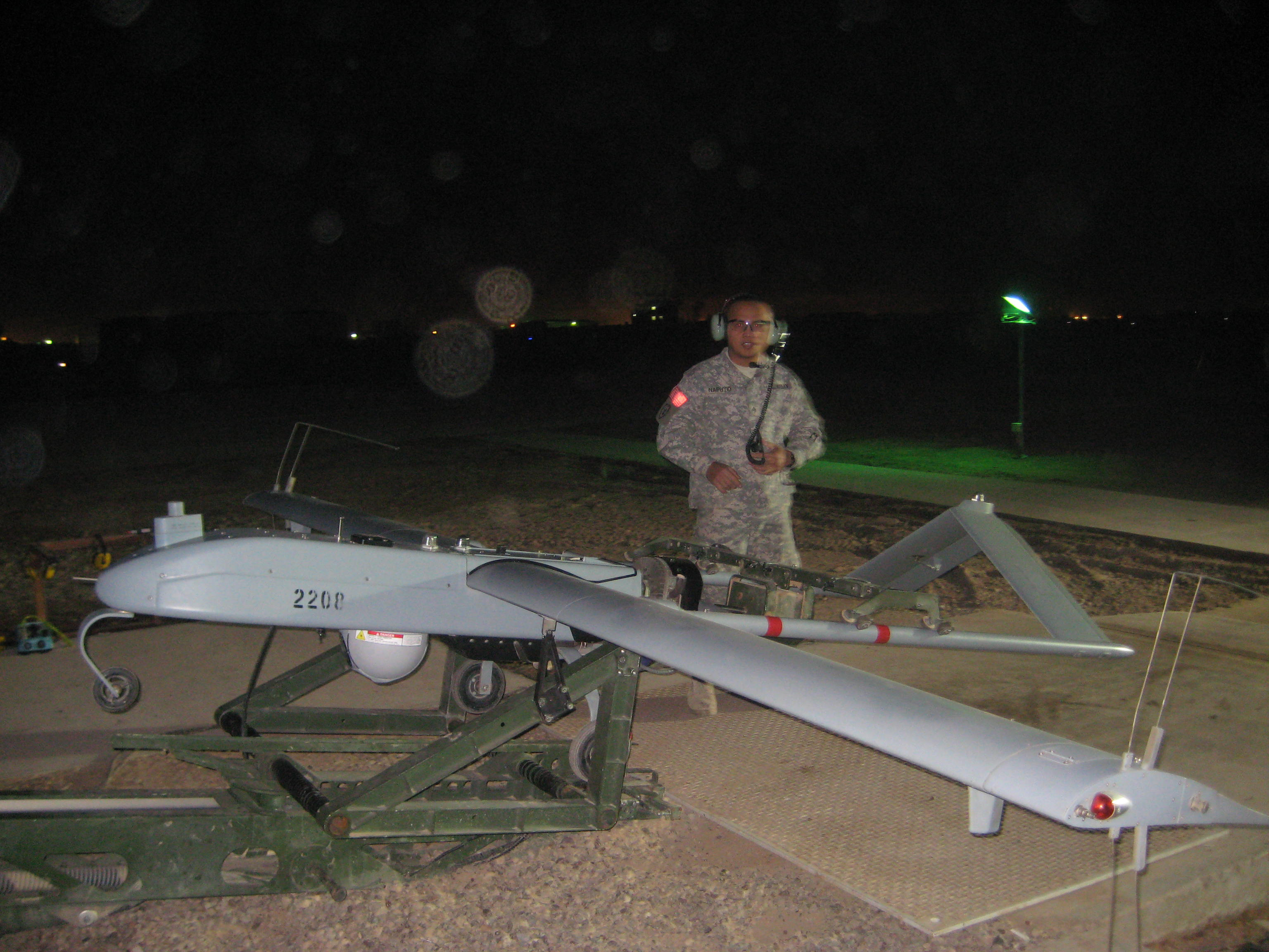 Sgt. Neal Naputo, a native of Zambales, Philippines, prepares to launch an unmanned aerial vehicle at Camp Taji, northwest of Iraq, Nov. 15. Naputo is the oldest of six children. Prior to joining the Army, he worked as a commercial spear fisherman. His hobbies consist of chess playing, where he once was a member of the All-Army Chess team, and playing guitar at the Tigris River Chapel. He serves as a technician for the Tactical Unmanned Aerial Systems Platoon assigned to Troop D "Diamondback," 2nd Squadron, 14th Cavalry Regiment "Strykehorse," 2nd Stryker Brigade Combat Team "Warrior," 25th Infantry Division, Multi-National Division - Baghdad.